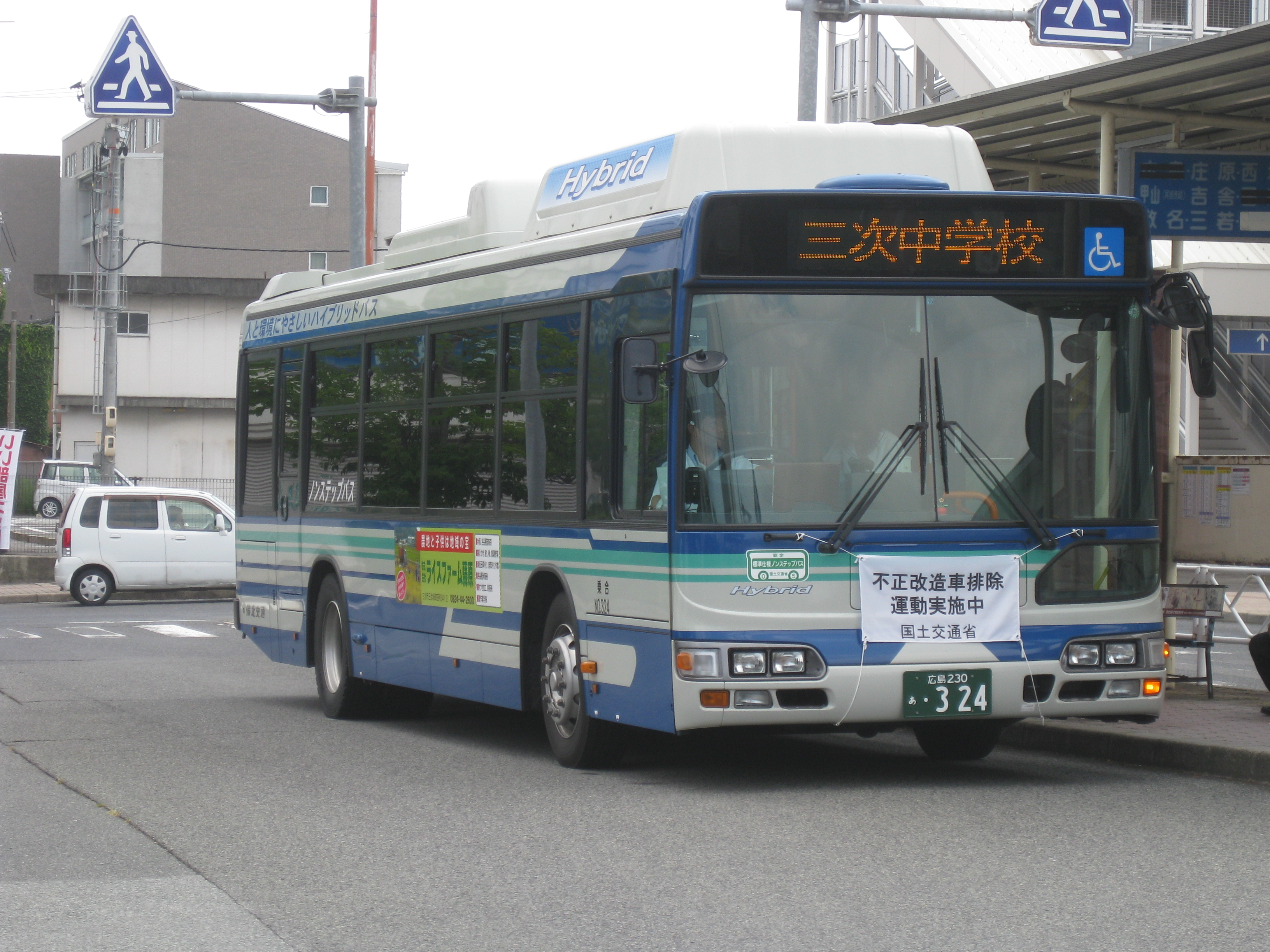 Hybrid bus car of Bihoku Kotsu(located in Shōbara). Taken at Miyoshi